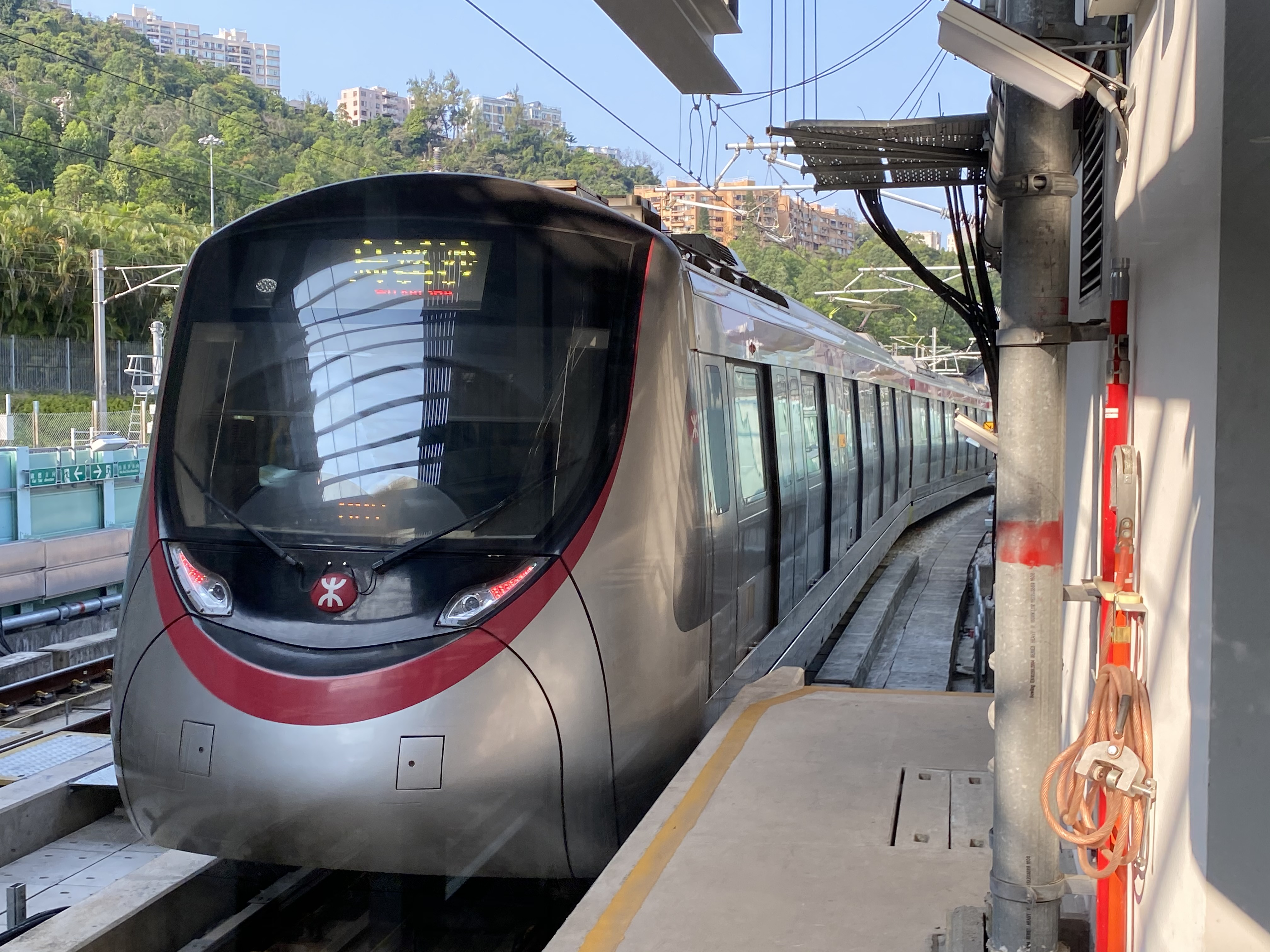 中文（香港）: This photo is taken in Hin Keng Station.